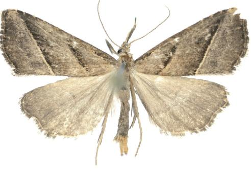 Schrankia pelicano paratype male, China